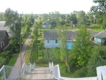 Ths south part of Sonkovo